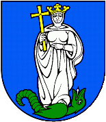 Coat of arms of Slovak village Mlynica, Poprad District, Prešov Region.